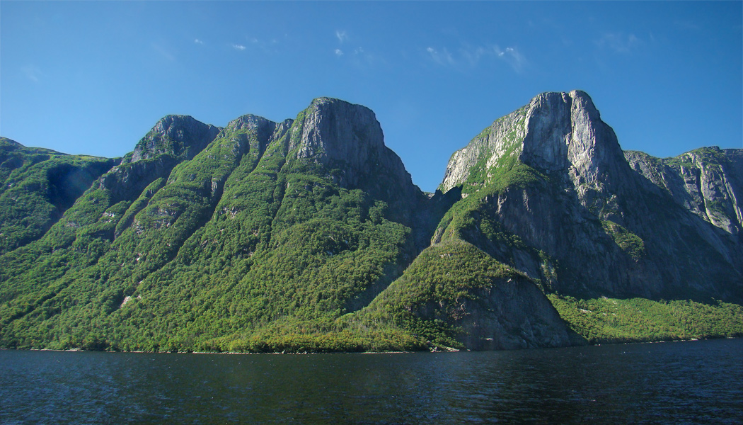 Gros Morne National Park, Western Newfoundland, Canada. Western Brook Pond seen from the cruise boat.